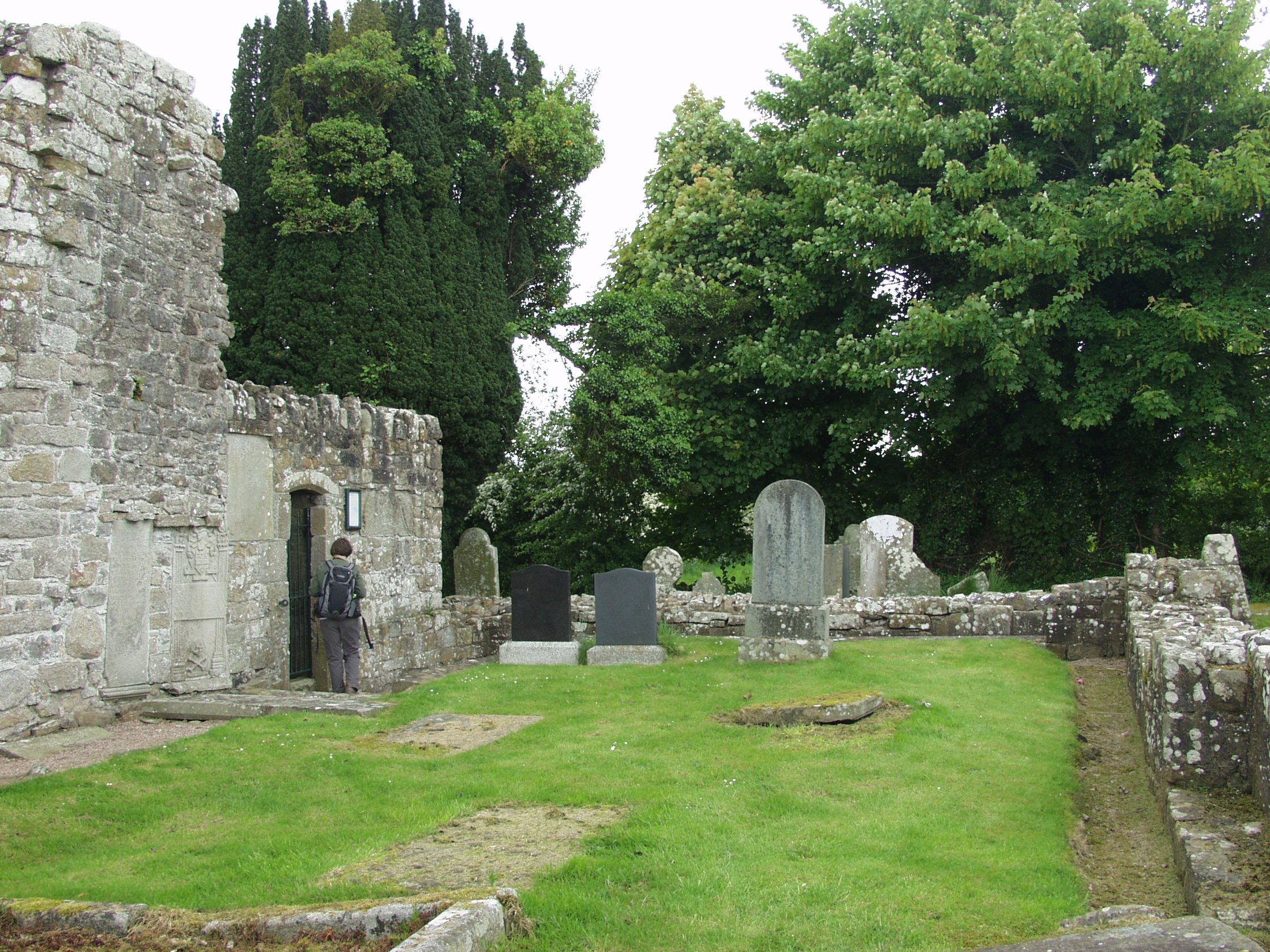 Aghalurcher Church Yard with wall and cemetery